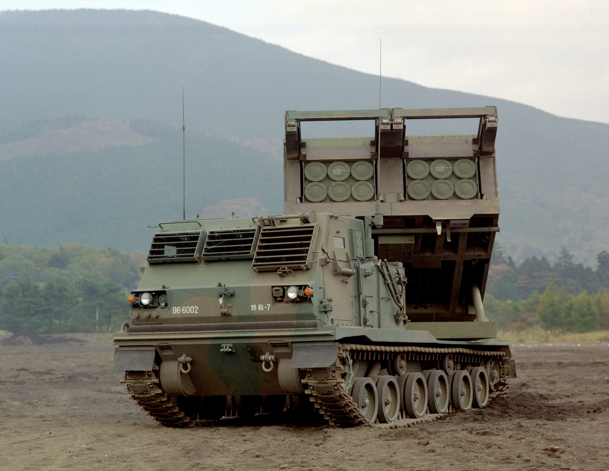 Title 多連装ロケットシステム 自走発射機Ｍ２７０008b.jpg Album 装備 多連装ロケットシステム 自走発射機Ｍ２７０